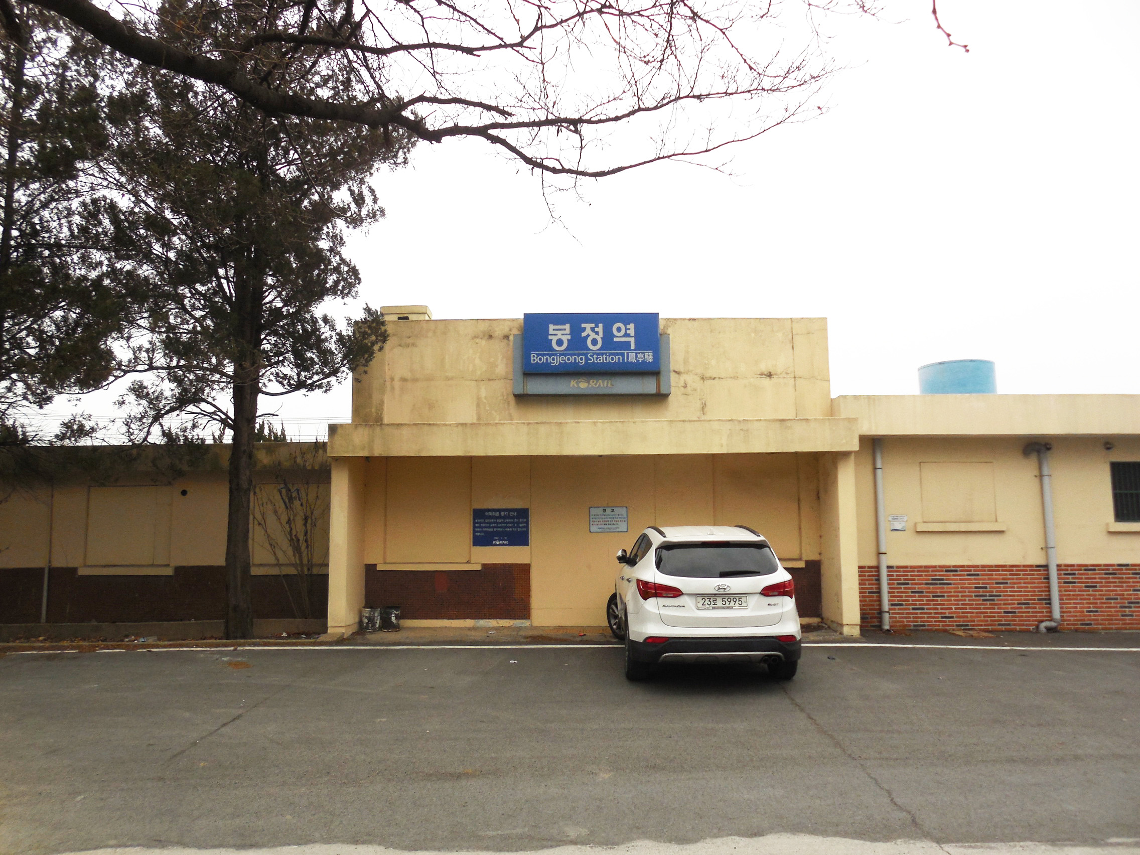 Korail Daegu Line Bongjeong Station.